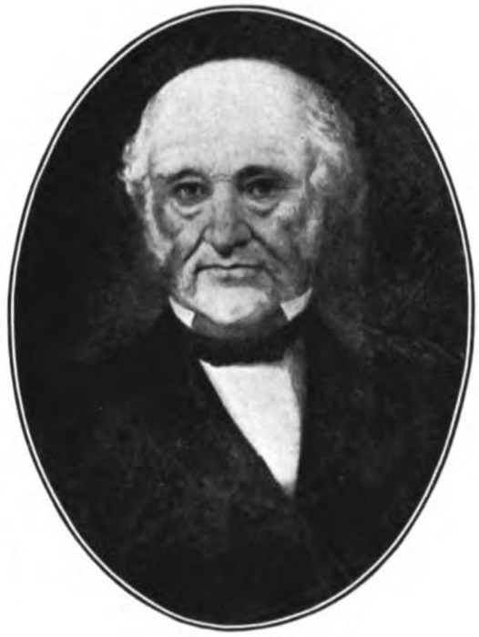 John Dickey (Pennsylvania Congressman)